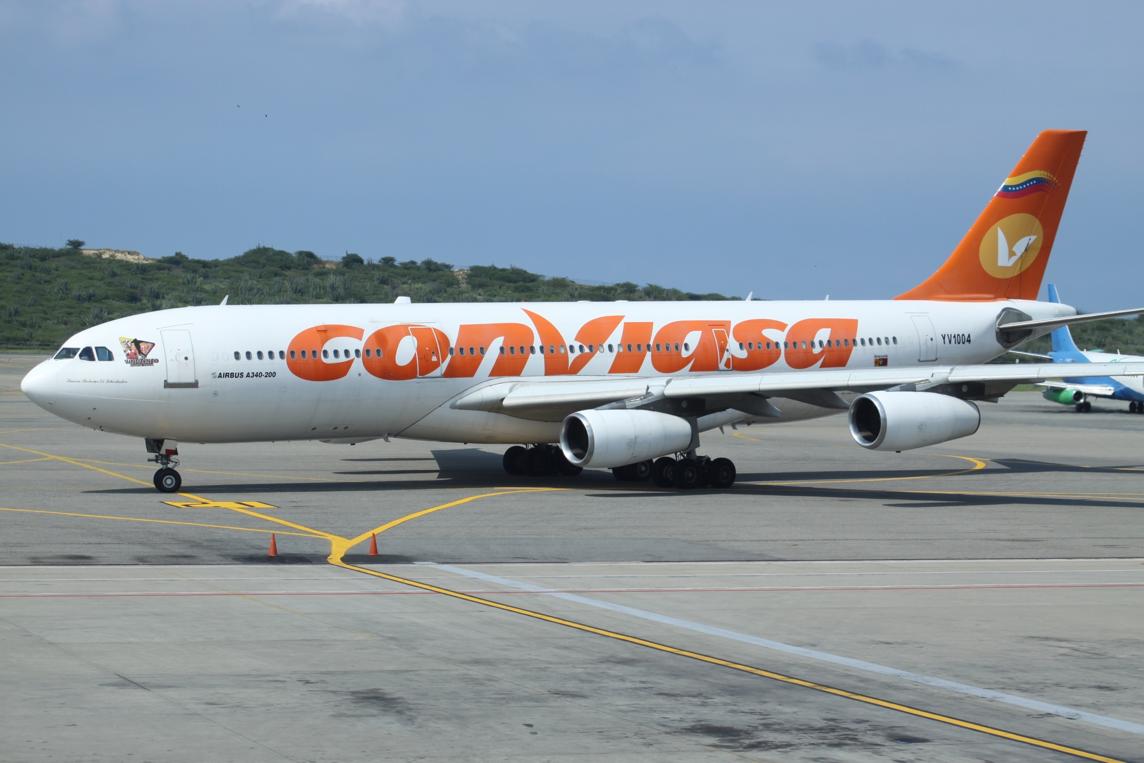 At Caracas Simón Bolívar International